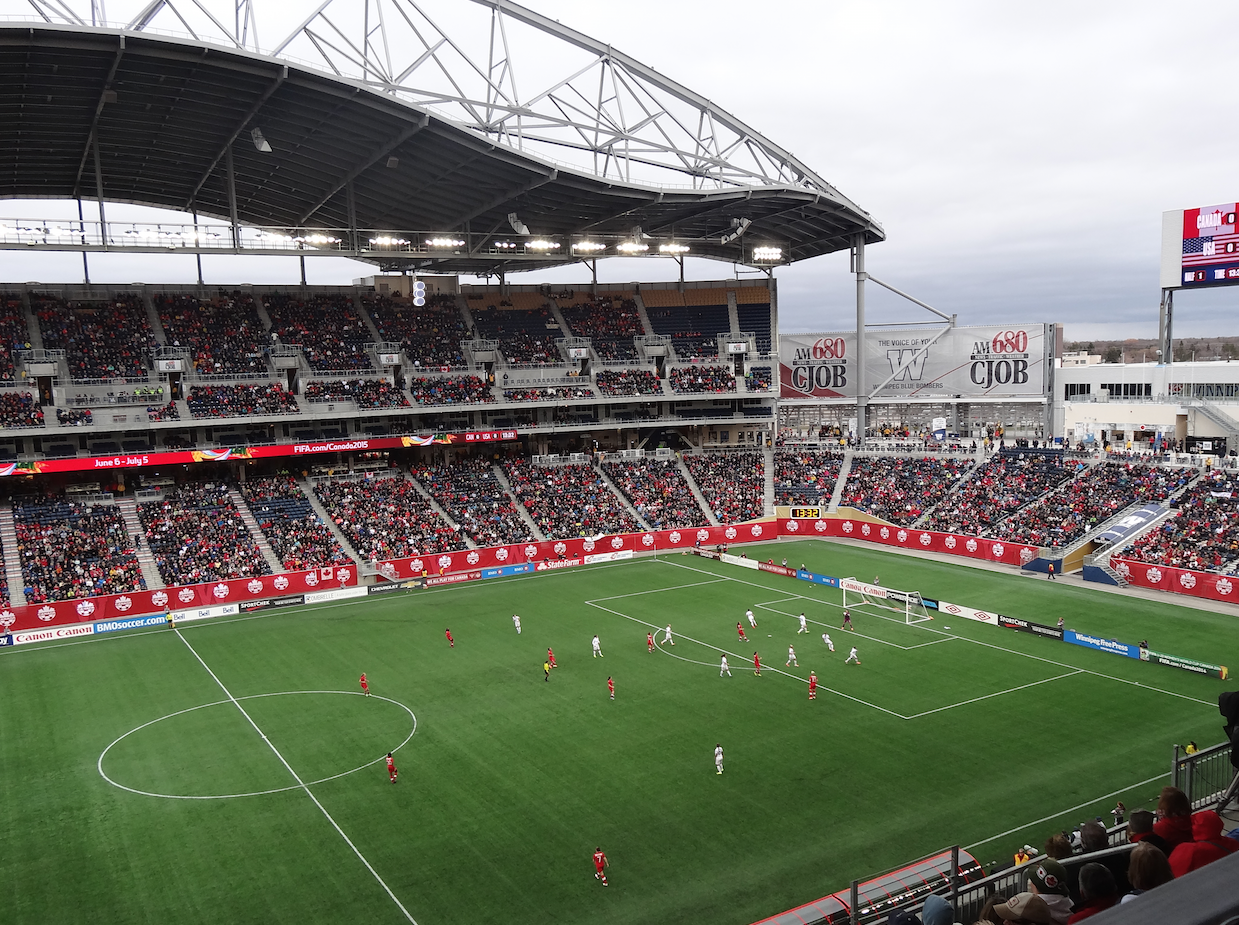 An exhibition game of the Canadian national women's team vs the USA national women's team. It was the second largest crowd ever to watch a soccer game in Canada at 28,000. The game at Investor's Group Field ended in a 1-1 draw.